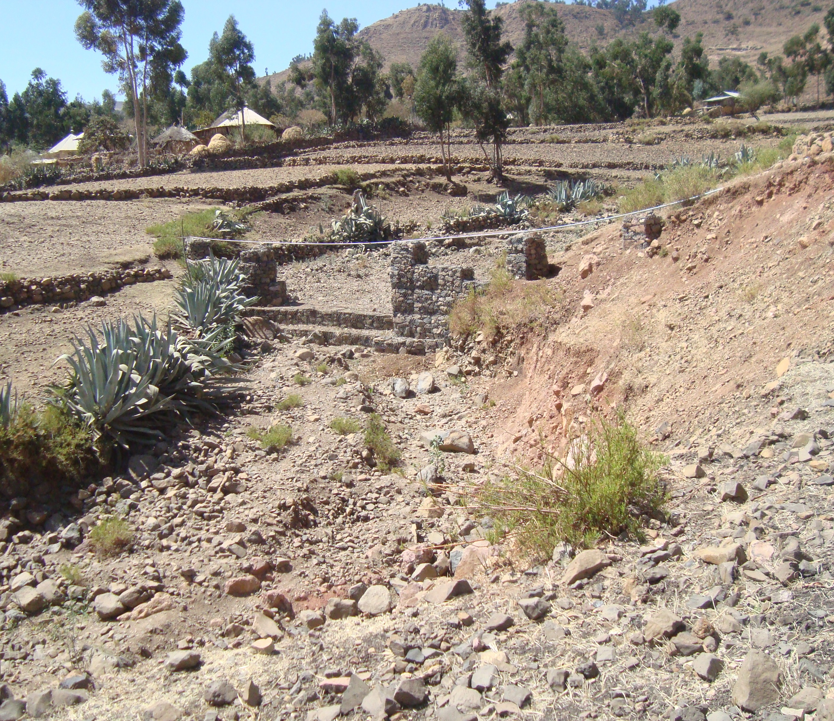 May harena in harena